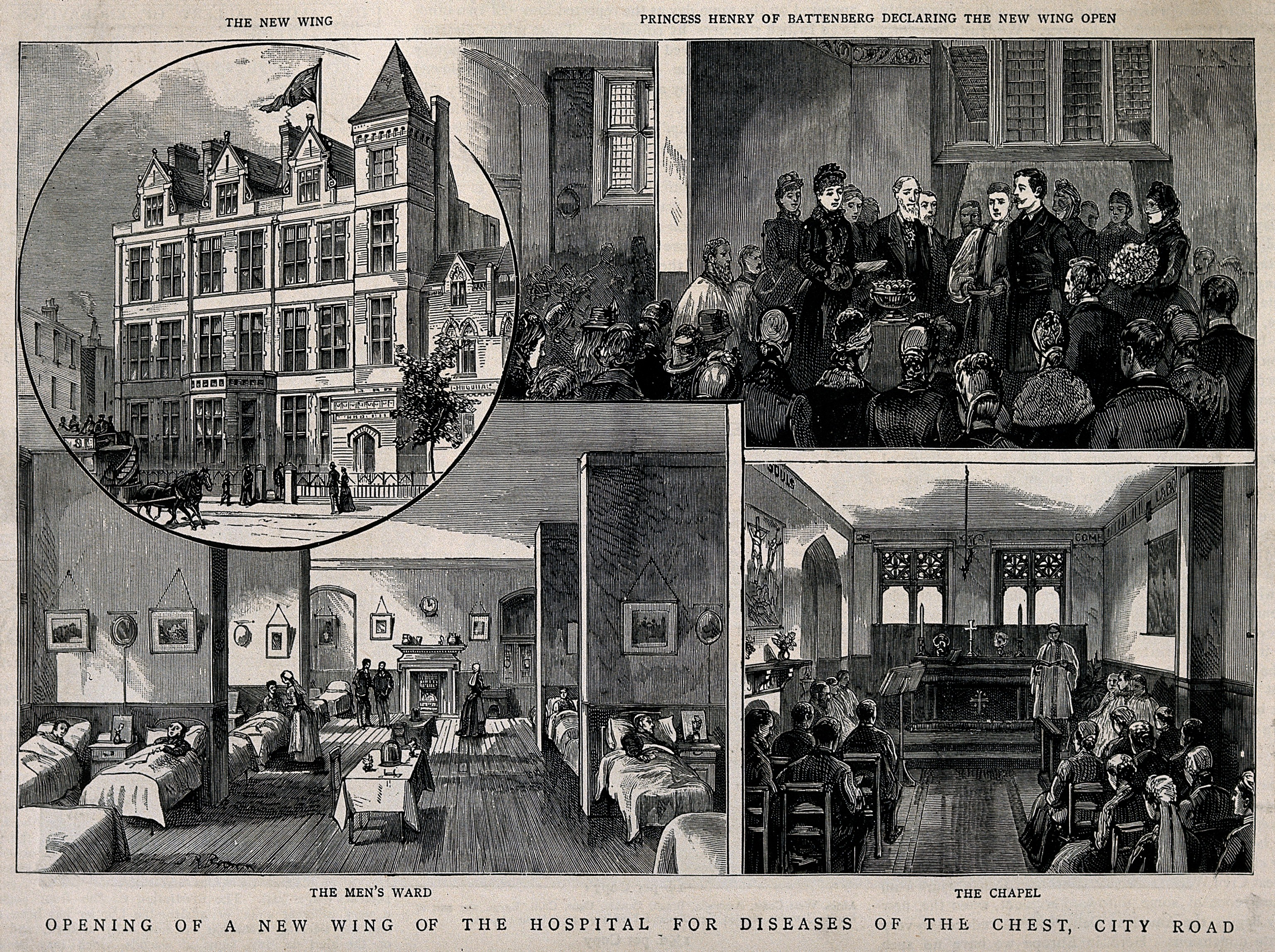 The Hospital for diseases of the chest, City Road: a montage of four views. Wood engraving by J. R. Brown. Iconographic Collections Keywords: Beatrice Mary Victoria Feodore; Royal Chest Hospital (London); J. R. Brown